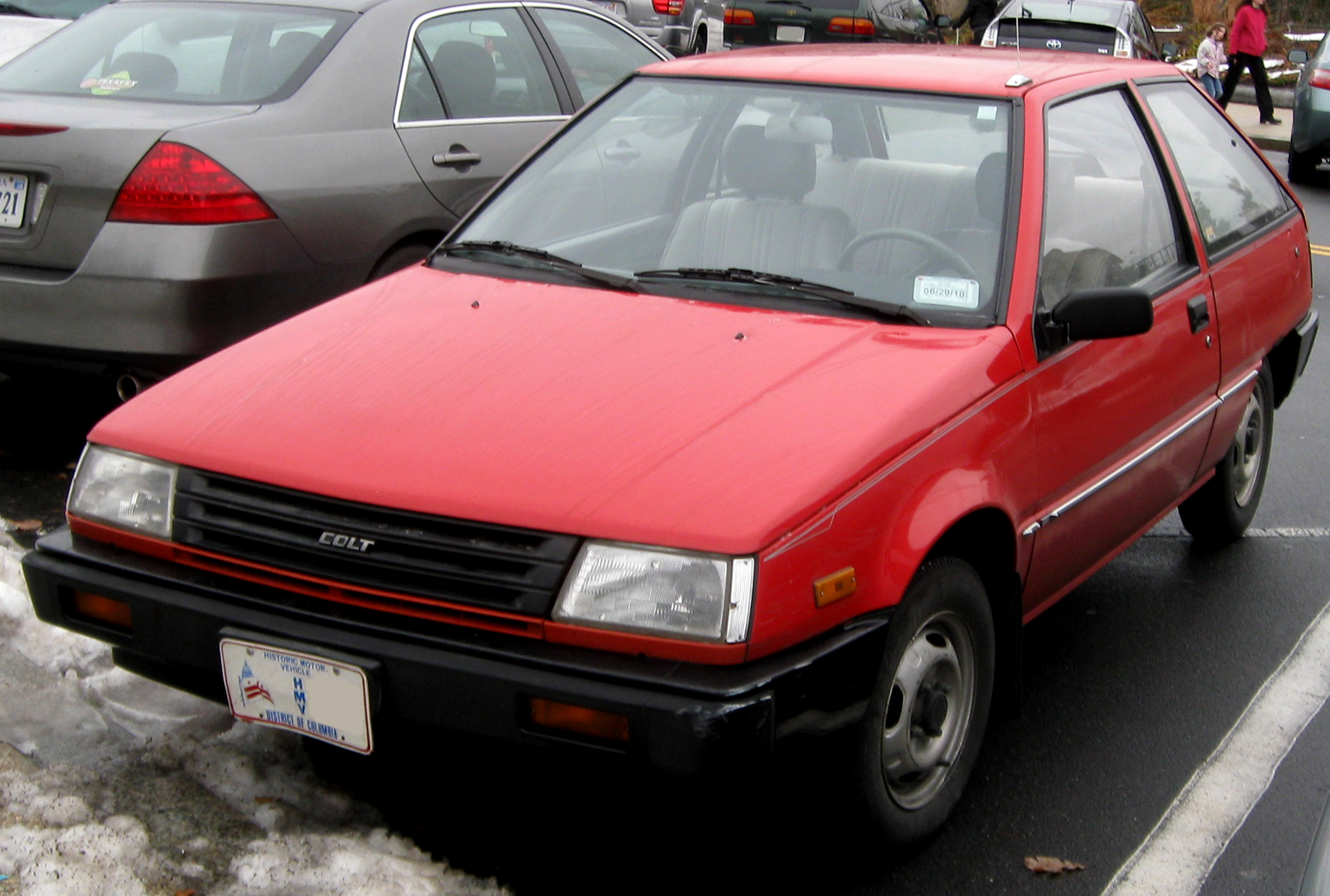 1987-1988 Dodge/Plymouth/Mitsubishi Colt photographed in Washington, D.C., USA.